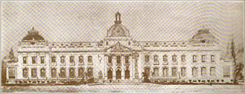 Design of the façade of National Palace of Haiti (1912) published in 1920 in the Blue Book of Haiti